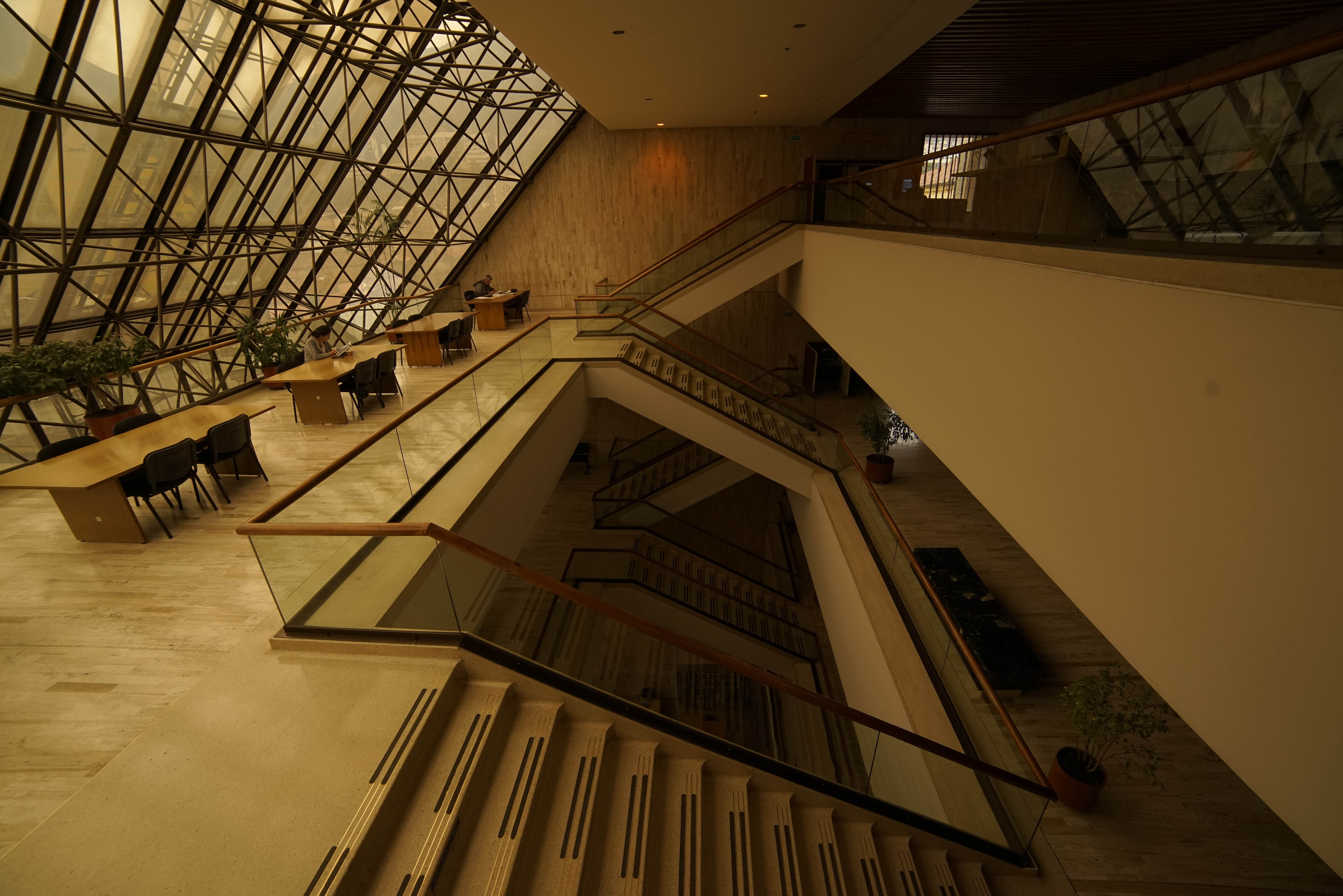 Luis Angel Arango Library Bogota